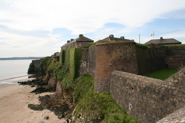 Duncannon Fort Duncannon Fort was built in 1588 in expectation of an attack by the Spanish Armada.